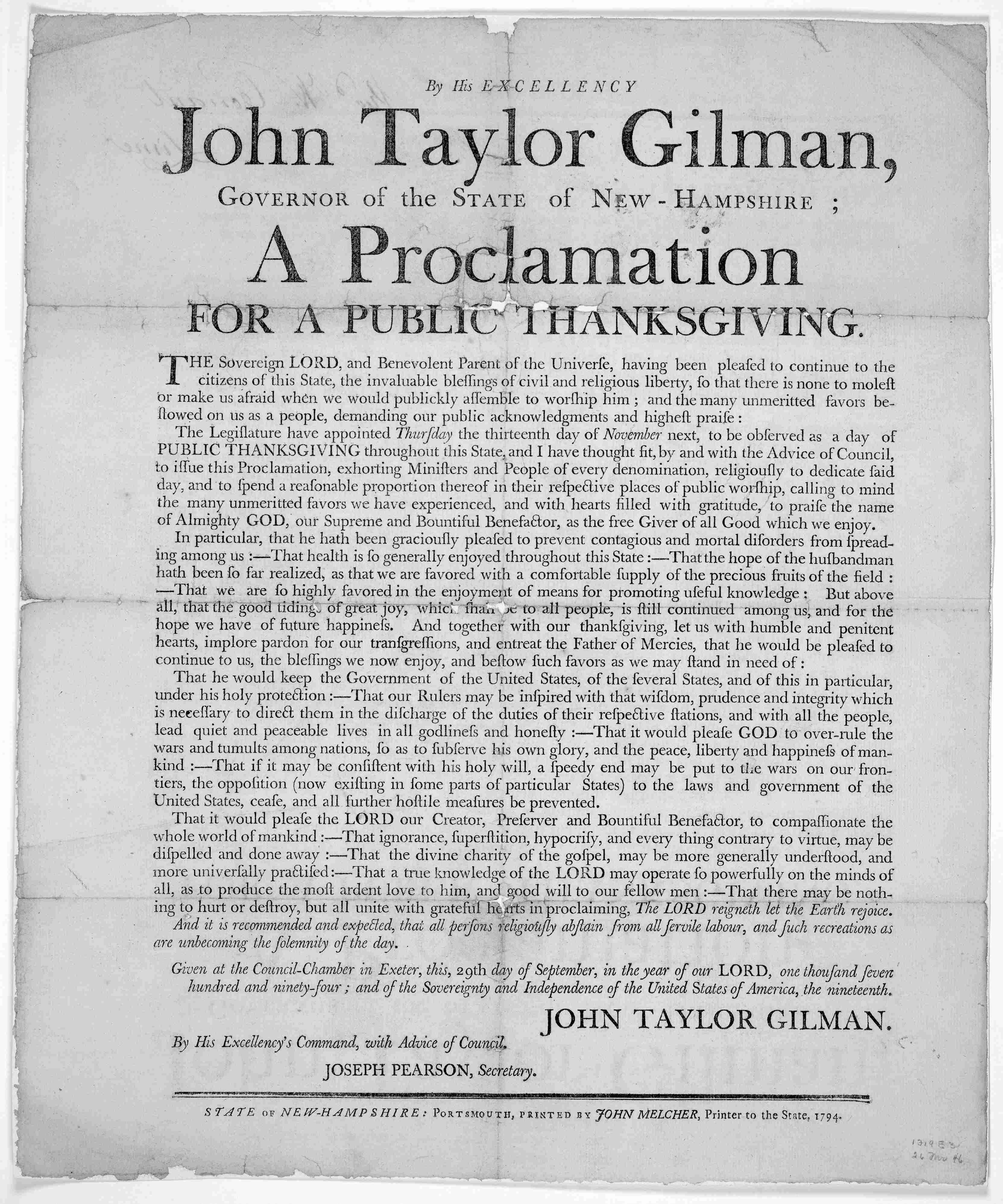 Proclamation by Governor John Taylor Gilman of a public Thanksgiving, printed at Portsmouth, New Hampshire, 1794. The Library of Congress, Washington, D.C.